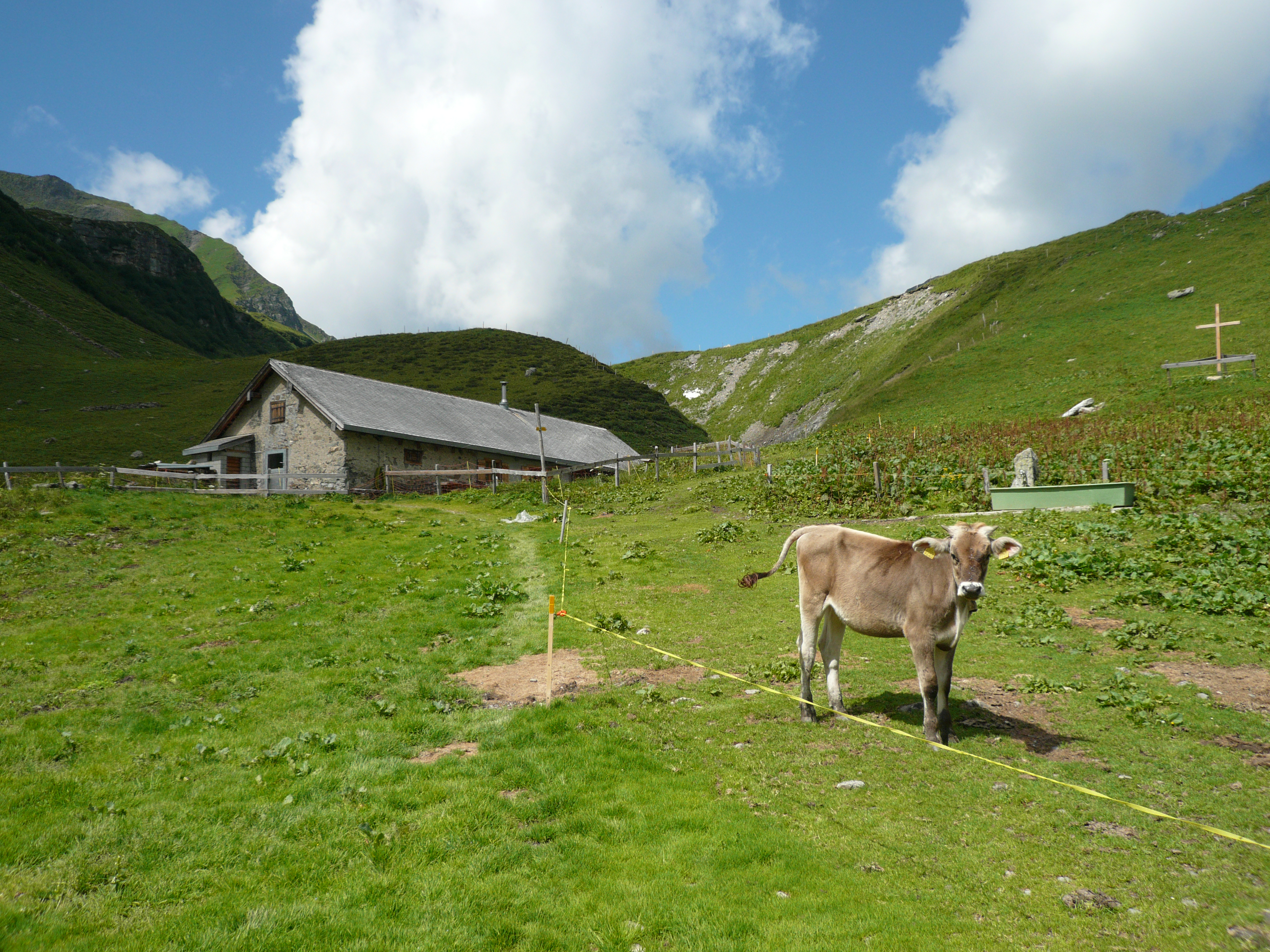 Alp Foo, Switzerland